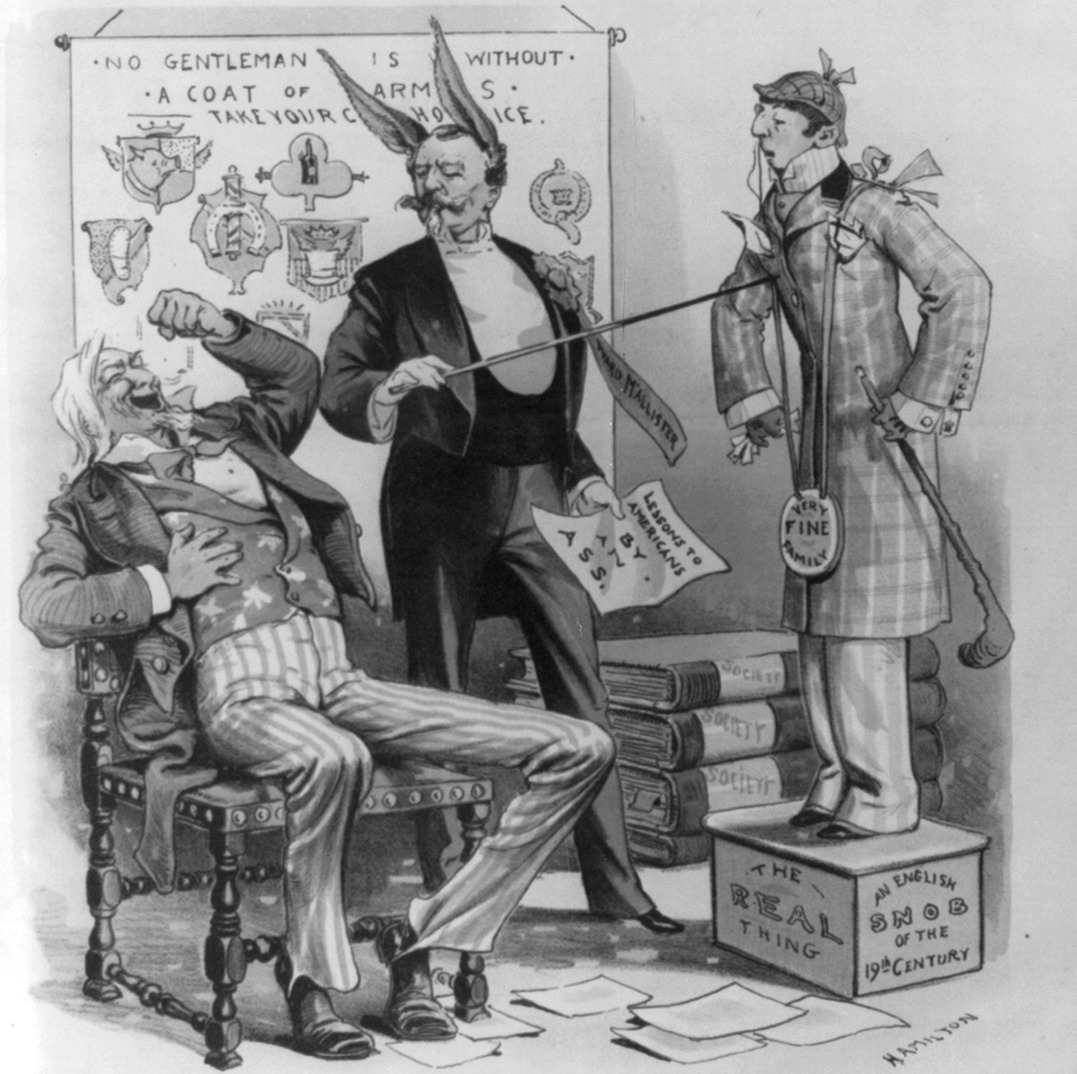 Caricature of Amercian lawyer and socialite Ward McAllister as "Snobbish Society's Schoolmaster". Library of Congress description: "Caricature of Ward McAllister (1855-1908) as "an ass" telling Uncle Sam he must imitate "an English Snob of the 19th Century" or "you will nevah be a gentleman"; Uncle Sam is shown laughing heartily."